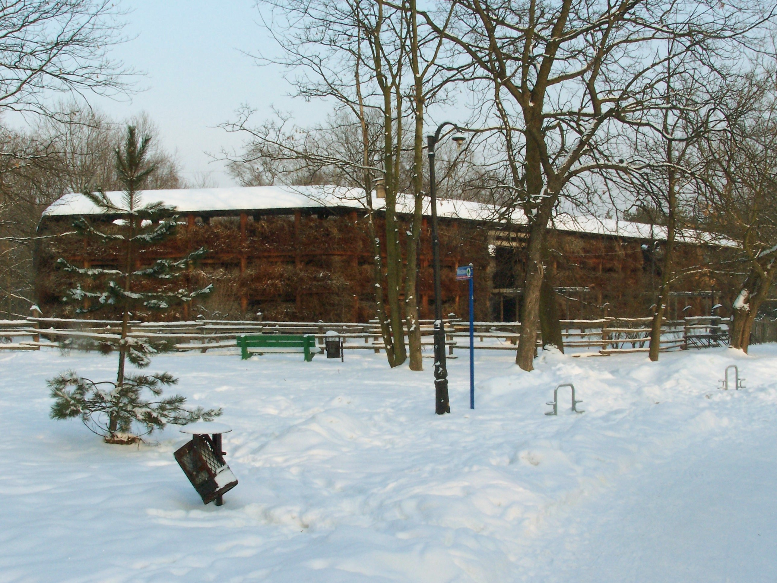 Saltwater inhalation construction (pl: tężnia solankowa), Konstancin-Jeziorna, Polska. Build and opened in 1978, 1600m deep, about 120m in length and 12 m in height.